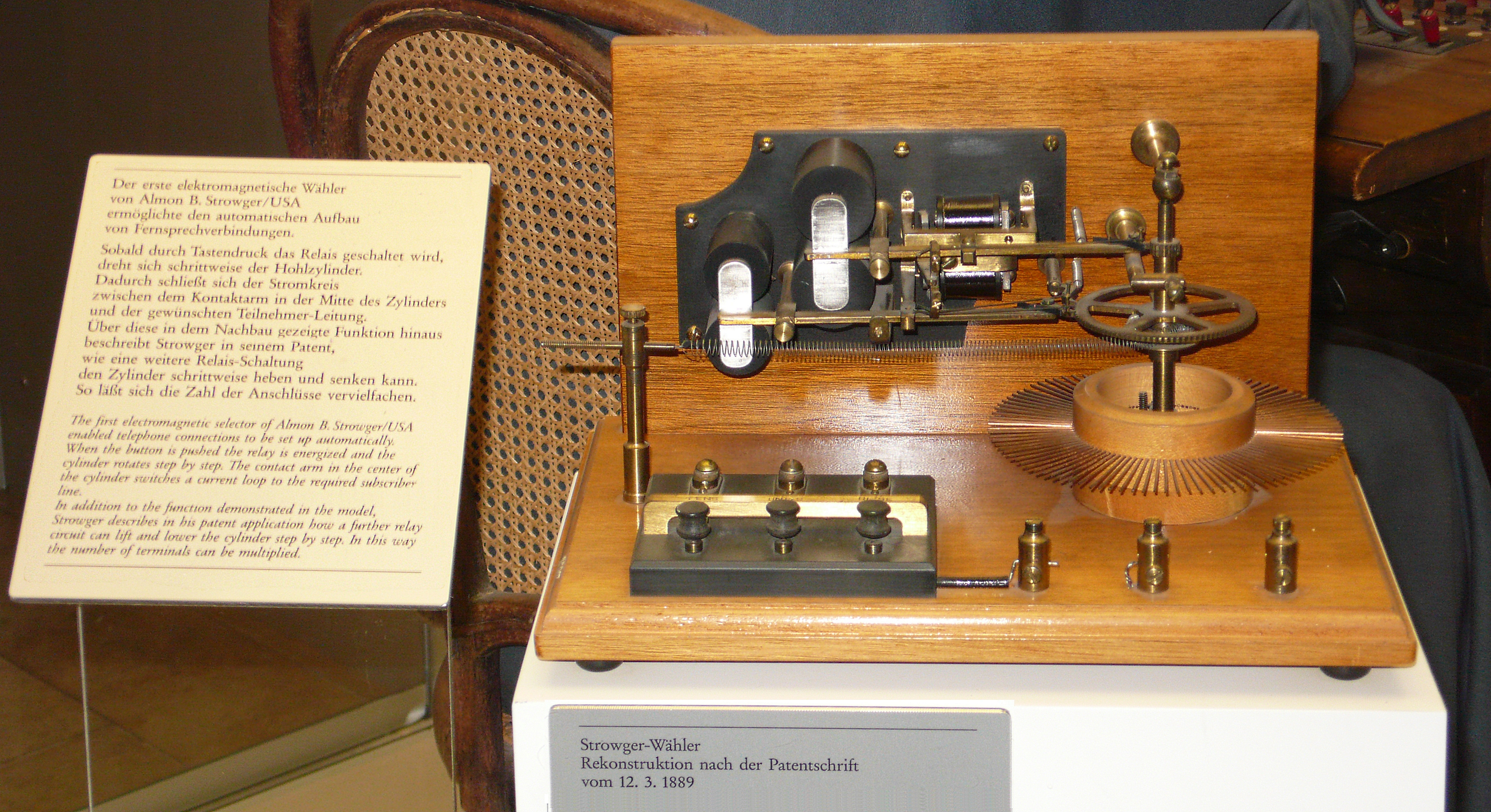 first electromagnetic selector of Almon B Strowger